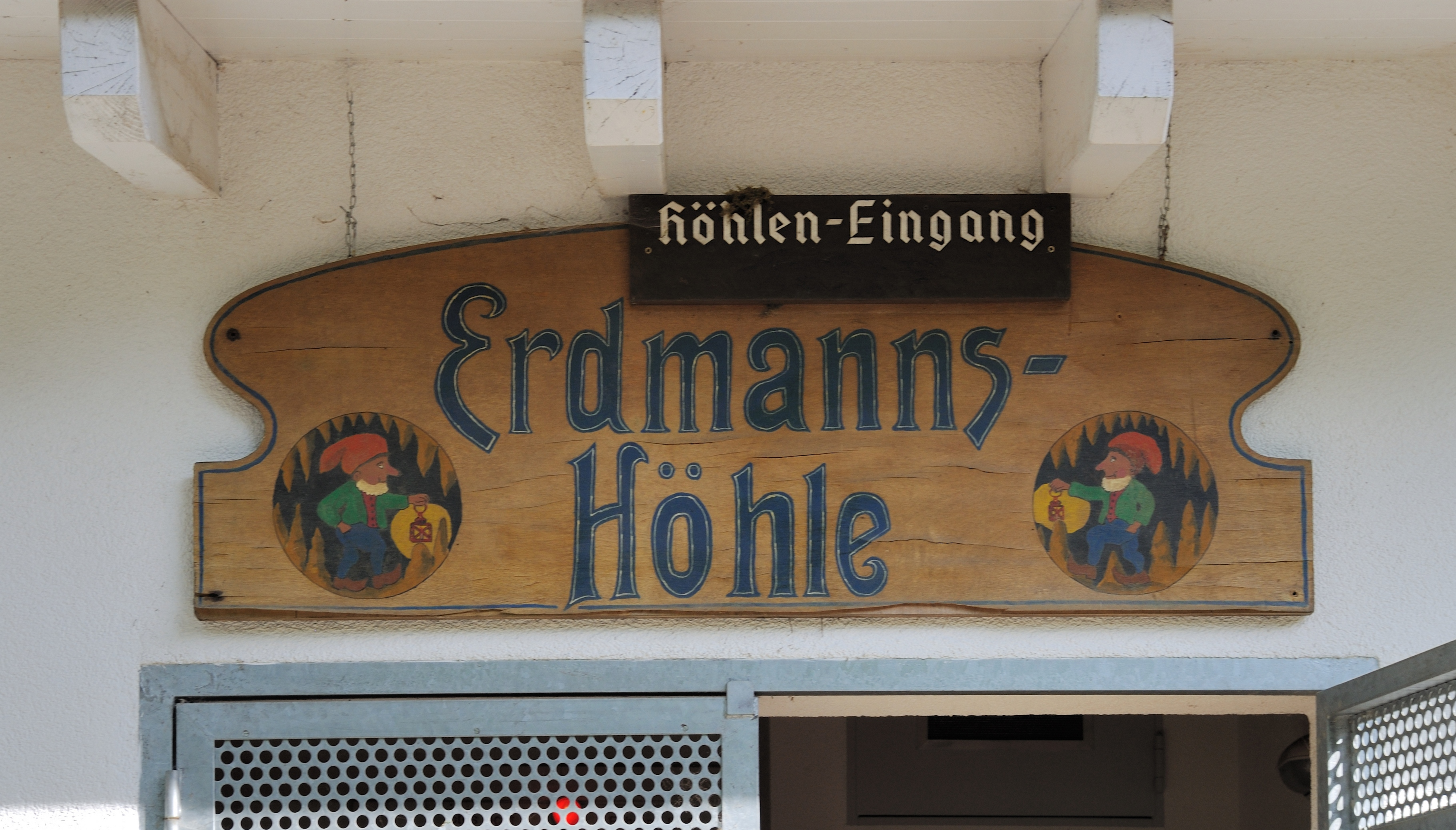 Hasel: Cave Erdmann